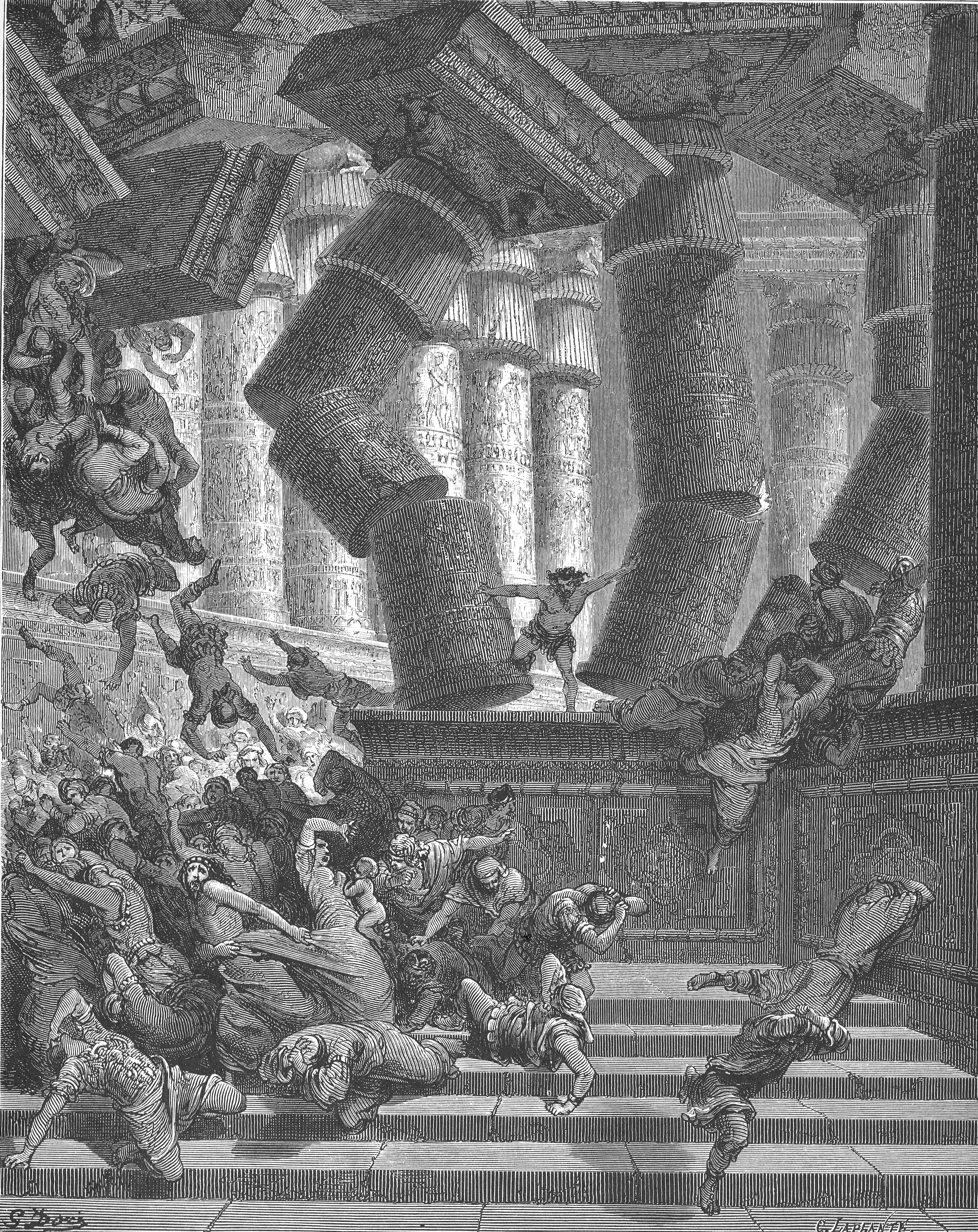 The Death of Samson (Jud. 16:25-34)